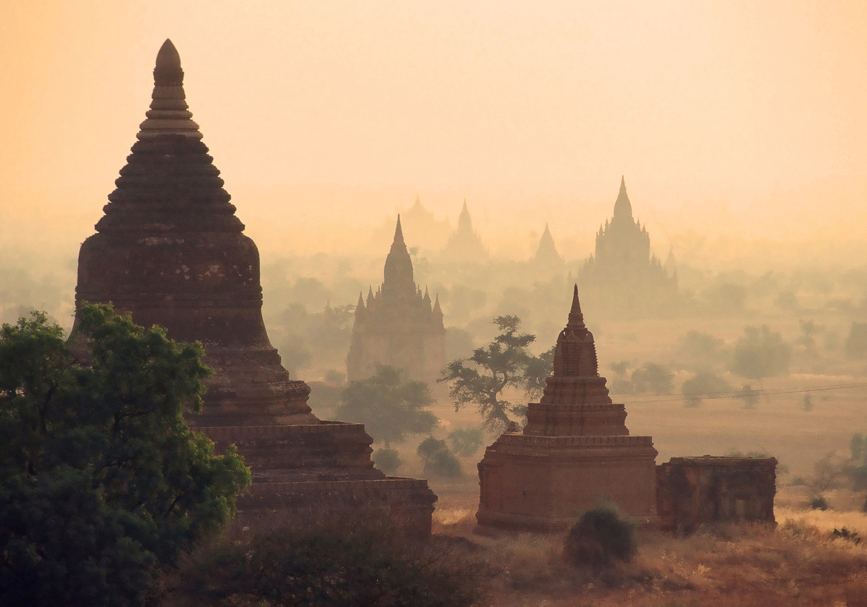 Ruins of Bagan, Burma, 1999.